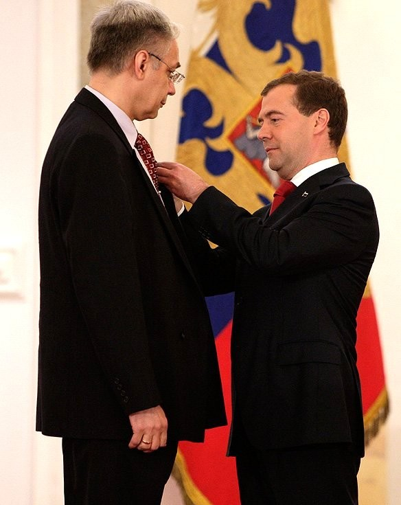 Dmitry Medvedev and Nikolay Vnogradov at State Prize of the Russian Federation awarding